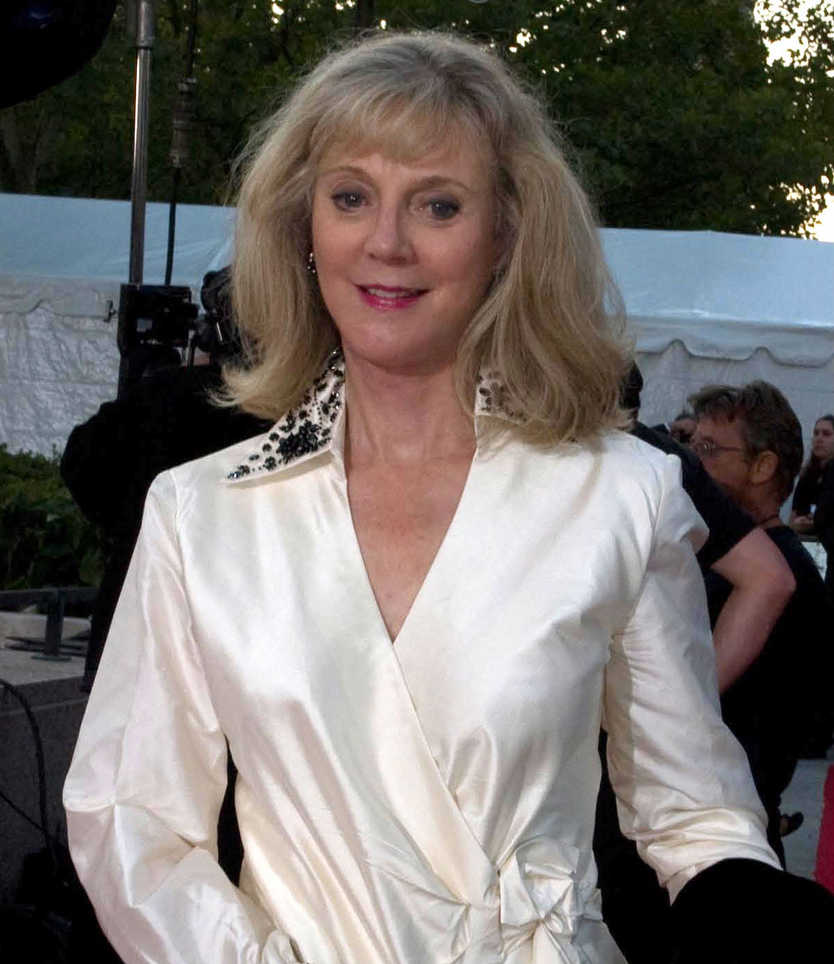 Blythe Danner at the Metropolitan Opera opening in 2008. © Rubenstein, photographer Martyna Borkowski